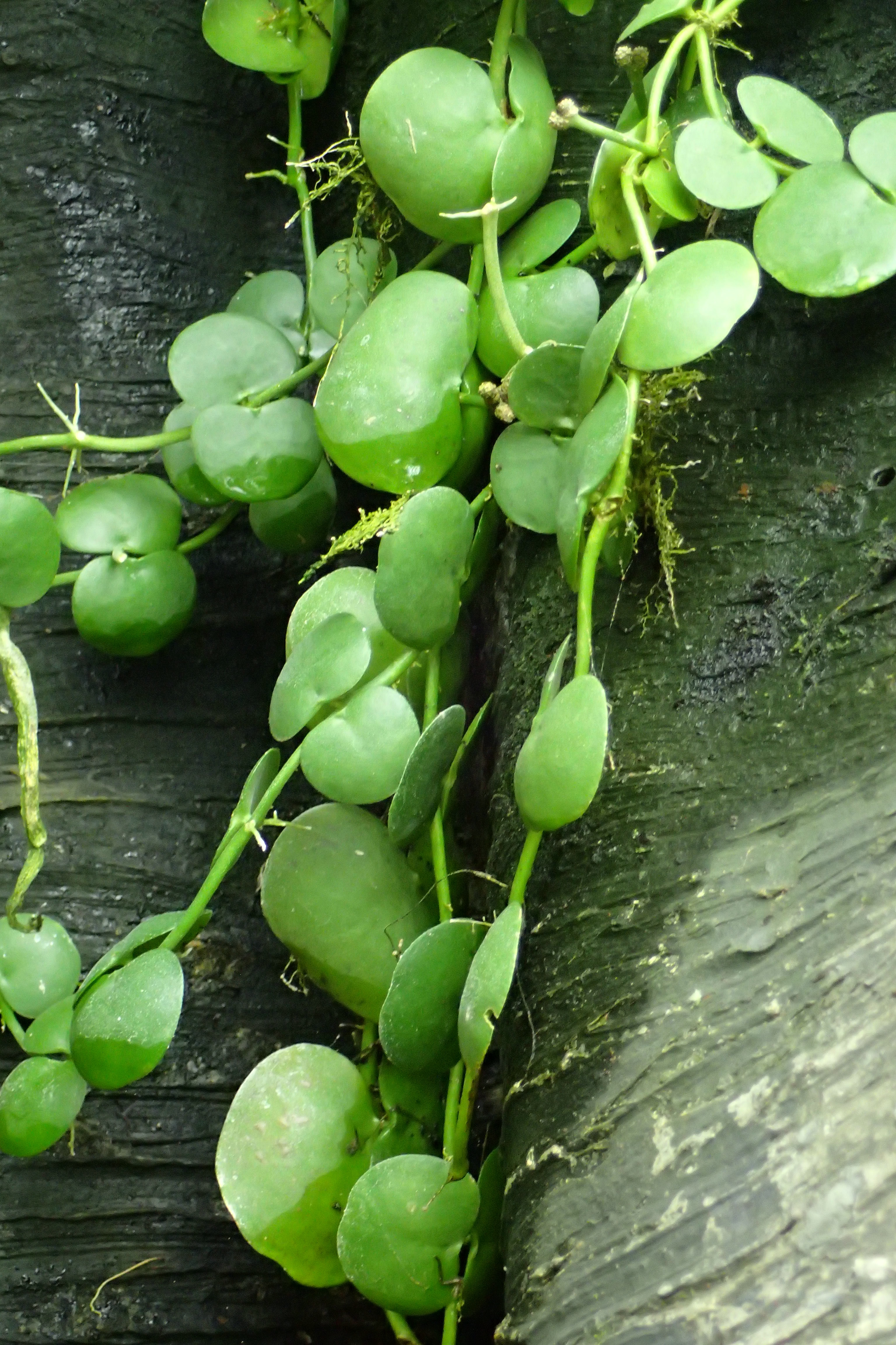 Dischidia platyphylla in Boltz Conservatory, Madison, Wisconsin